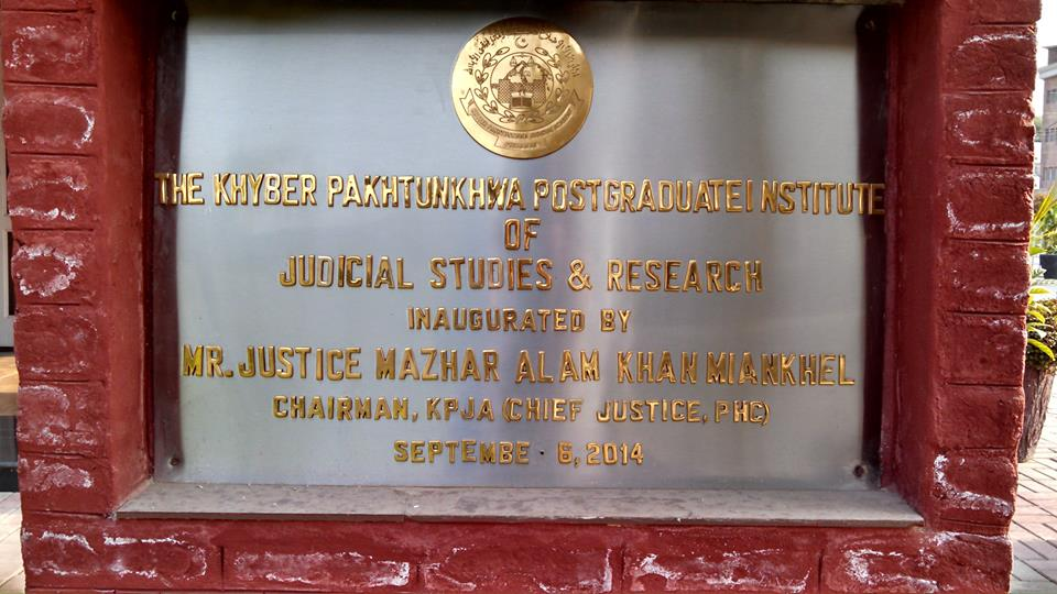 Khyber Pakhtunkhwa Postgraduate Institute of Judicial Studies and Research Peshawar